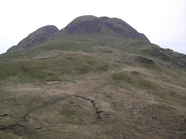 Slopes of Cruach nam Mult The upper slopes of Cruach nam Mult.